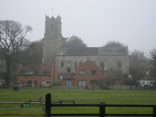 Ormesby St. Margaret Church.